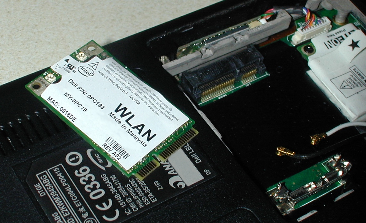 Intel WLAN PCI Express Mini Card "WM3945ABG MOW2" and its connector, edited to remove serial numbers and barcodes.